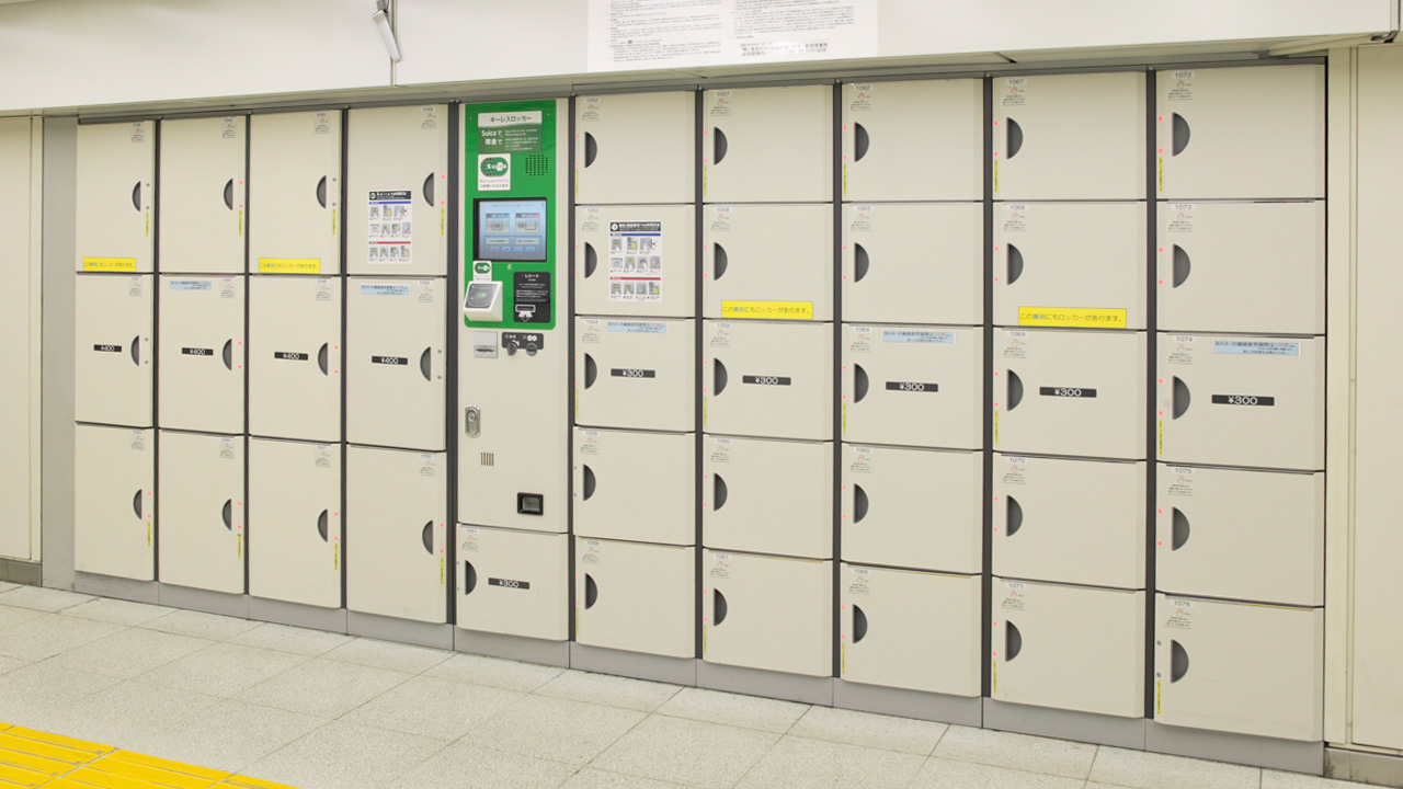 Keyless Lockers for Suica and PASMO in Shibuya Station